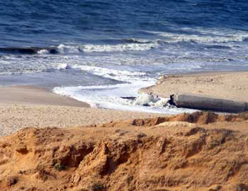 waste piles up at rafah municipality waste dump